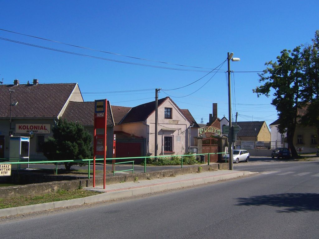 Kuchař (Vysoký Újezd)